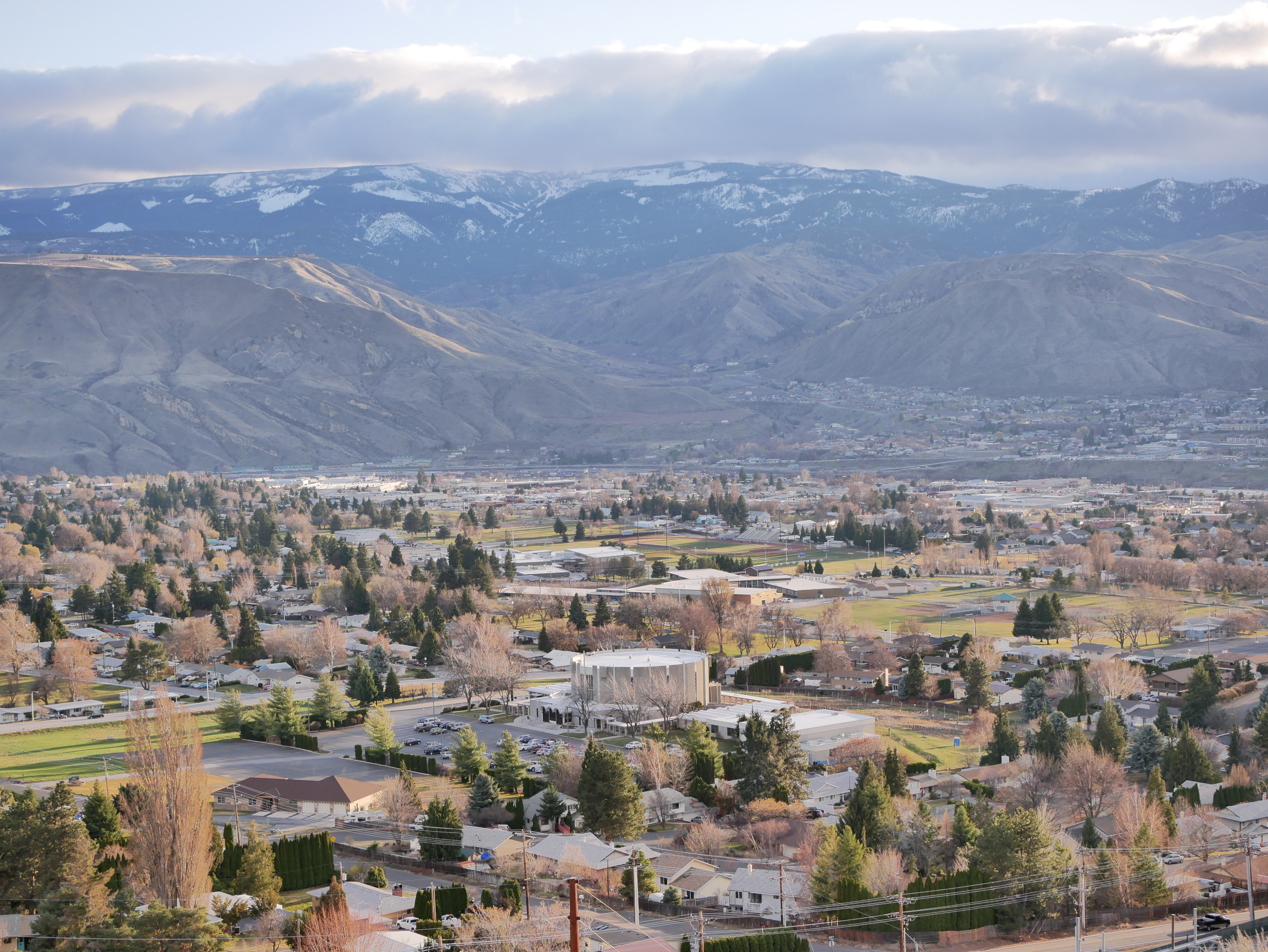 East Wenatchee Washington- looking south, Columbia River in the valley below